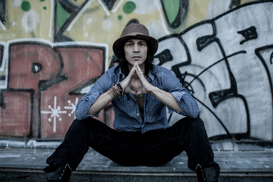 Robby Maria - METROPOLIS (2013)